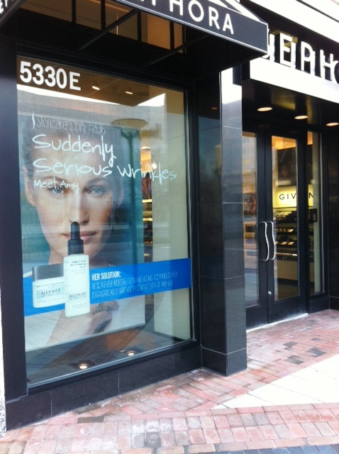 Algenist in Sephora window